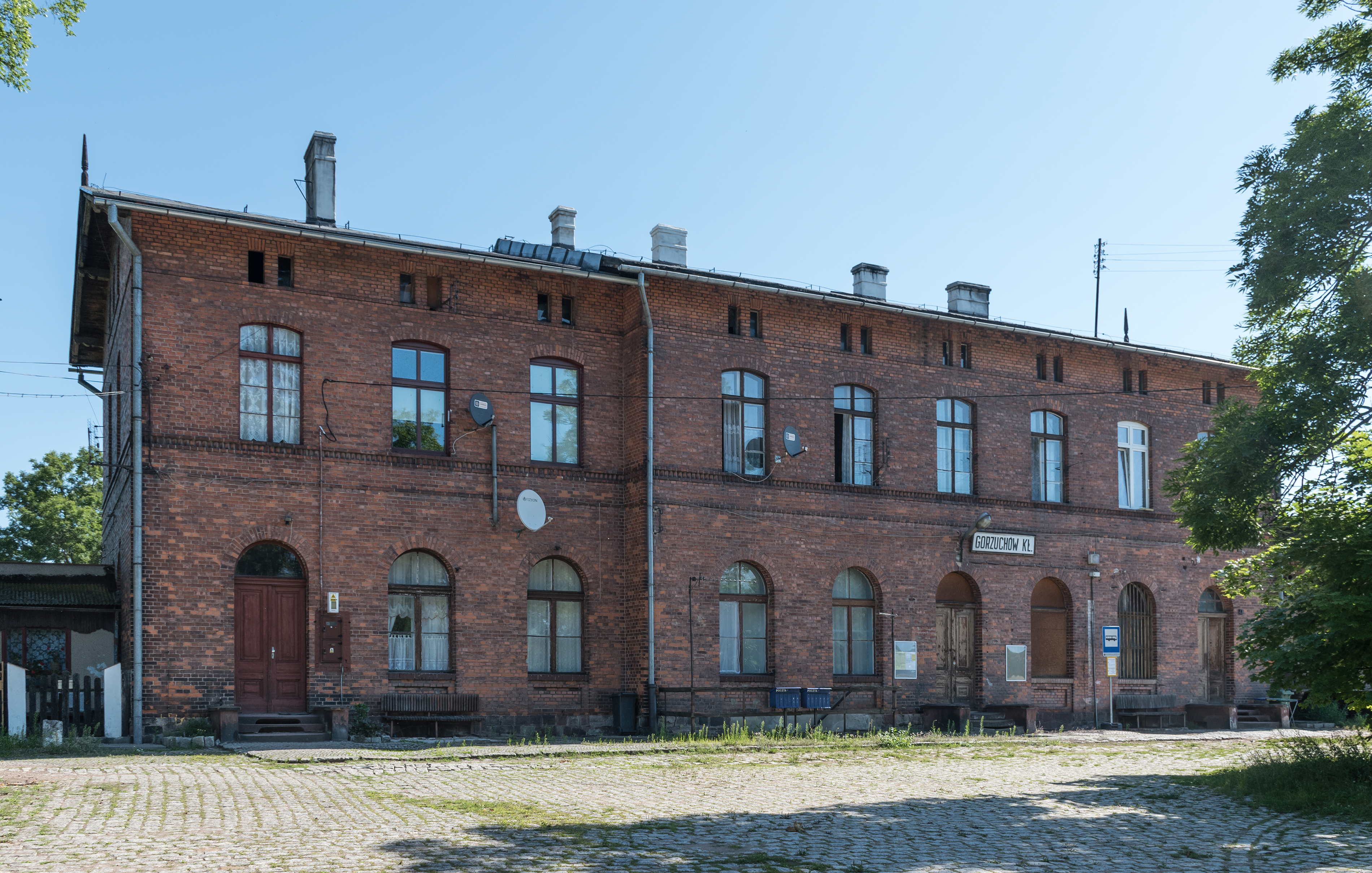 Gorzuchów Kłodzki train stop